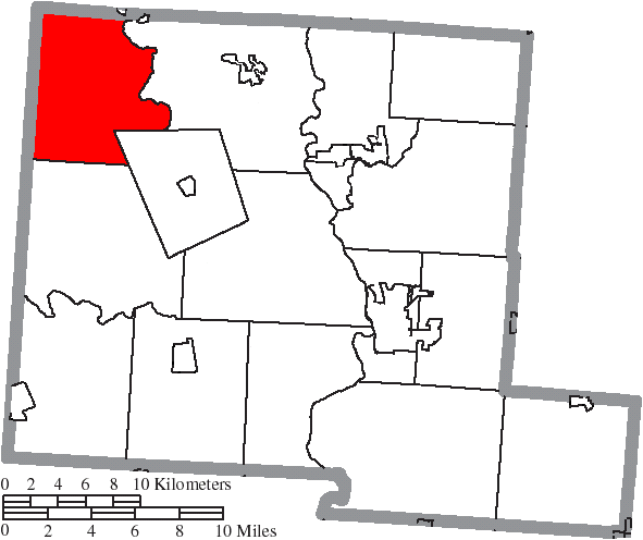 Map of the municipal and township boundaries of Pickaway County, Ohio, United States, as of the 2000 census, with the location of Darby Township highlighted. Township borders are shown only in unincorporated areas in order to differentiate incorporated and unincorporated areas more clearly.